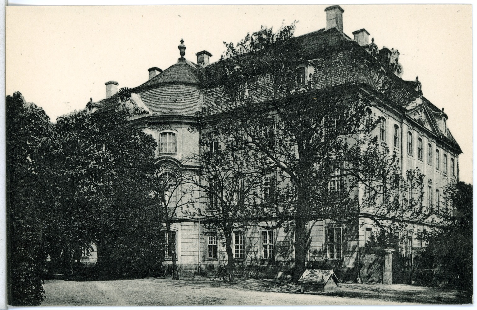 This postcard is from publisher Brück & Sohn in Meißen ( This postcard has a unique number 12413 and is available in a higher resolution at the publisher. This images was uploaded in a cooperation project between Wikipedians and the publisher.